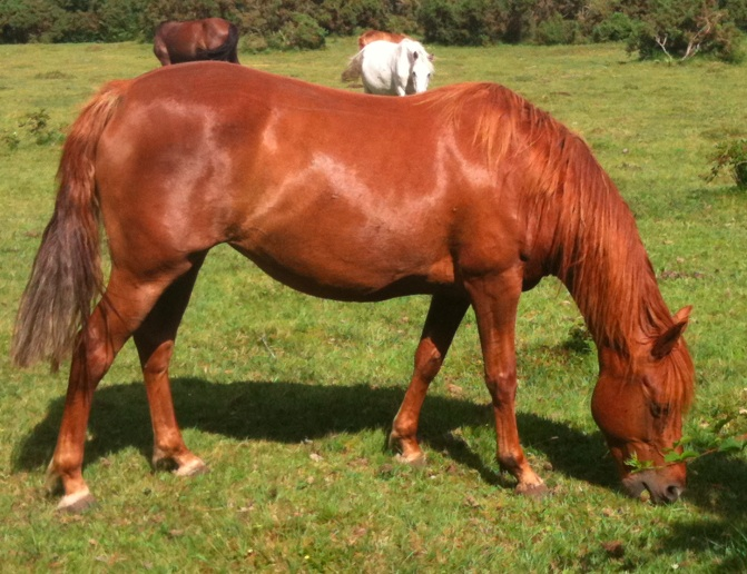 Chestnut TB x New Forest pony